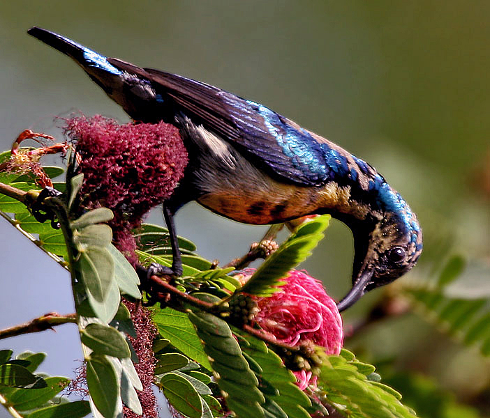 Purple Sunbird Nectarinia asiatica in Kolkata, West Bengal, India.